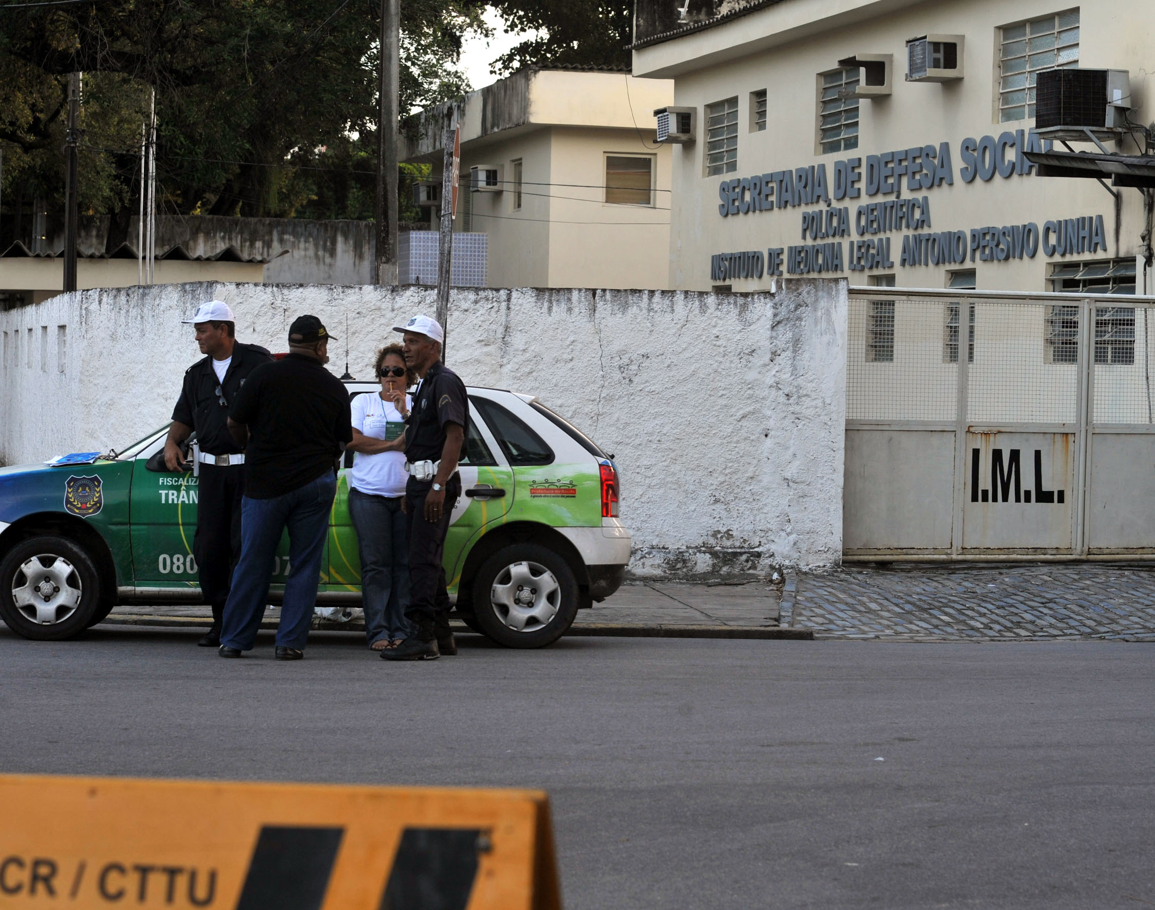 The streets near the IML of Recife are closed since yesterday to hold the corpses of the crash of the Airbus A330.